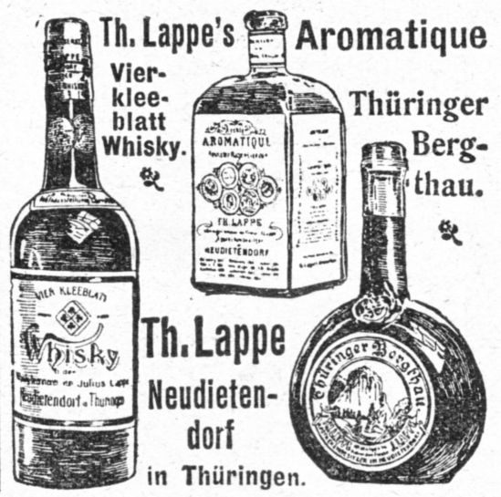 Advertisement Th. Lappe Neudietendorf